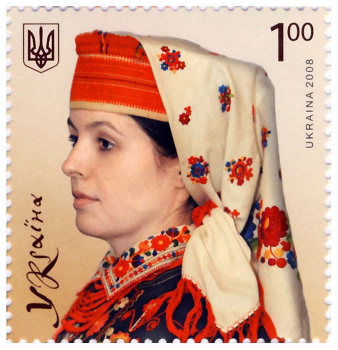 Traditional Head dress of Ukraine: Bavnytsia and Kerchief, from Lviv According to the Article 10 of the Law of Ukraine on Copyright and Related rights this work is in the public domain within Ukraine and possibly in other jurisdictions because it is one of the following: (a) daily news or details of current events that constitute regular press information; (b) works of folk art (folklore); (c) official documents of a political, legislative or administrative nature (laws, decrees, resolutions, court awards, State standards, etc.) issued by government authorities within their powers, and official translations thereof; (d) State symbols of Ukraine, government awards; symbols and signs of government authorities, the Armed Forces of Ukraine and other military formations; symbols of territorial communities; symbols and signs of enterprises, institutions and organizations; (includes postage stamps) (e) coins and banknotes; (f) transport schedules, TV and radio broadcast schedules, telephone directories and other similar databases that do not meet the originality criteria and to which the sui generis right (a particular or special right) is applicable; Note that drafts of anything that falls under sections (d) and (e), unless officially approved, are under copyright.